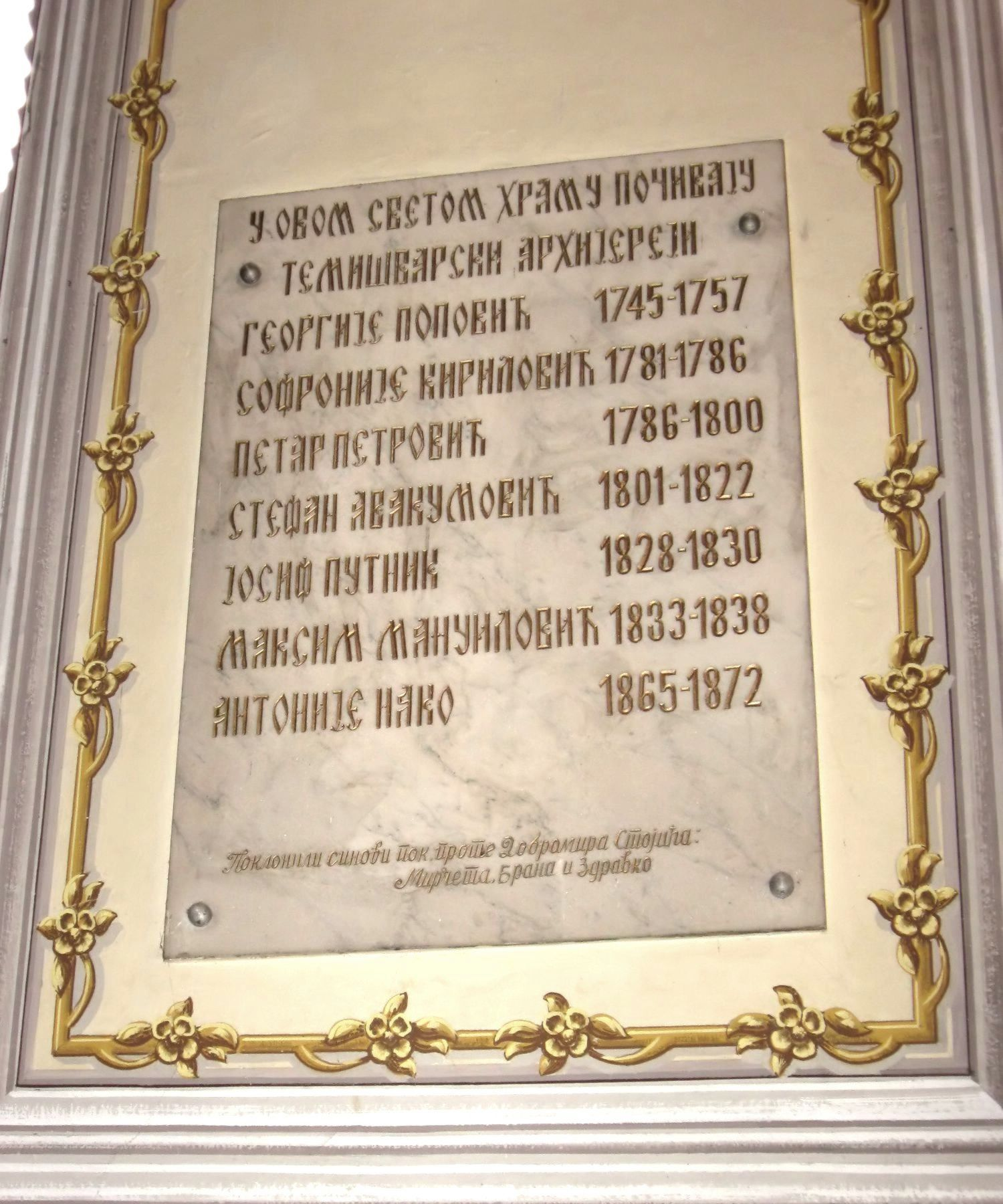 The Serbian Orthodox Cathedral, Timişoara, Romania.